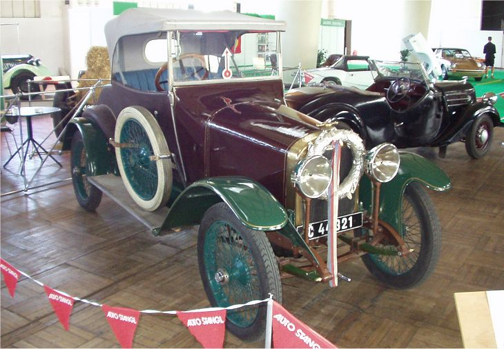 Automobile Walter W-I from 1913, Prague - Jinonice